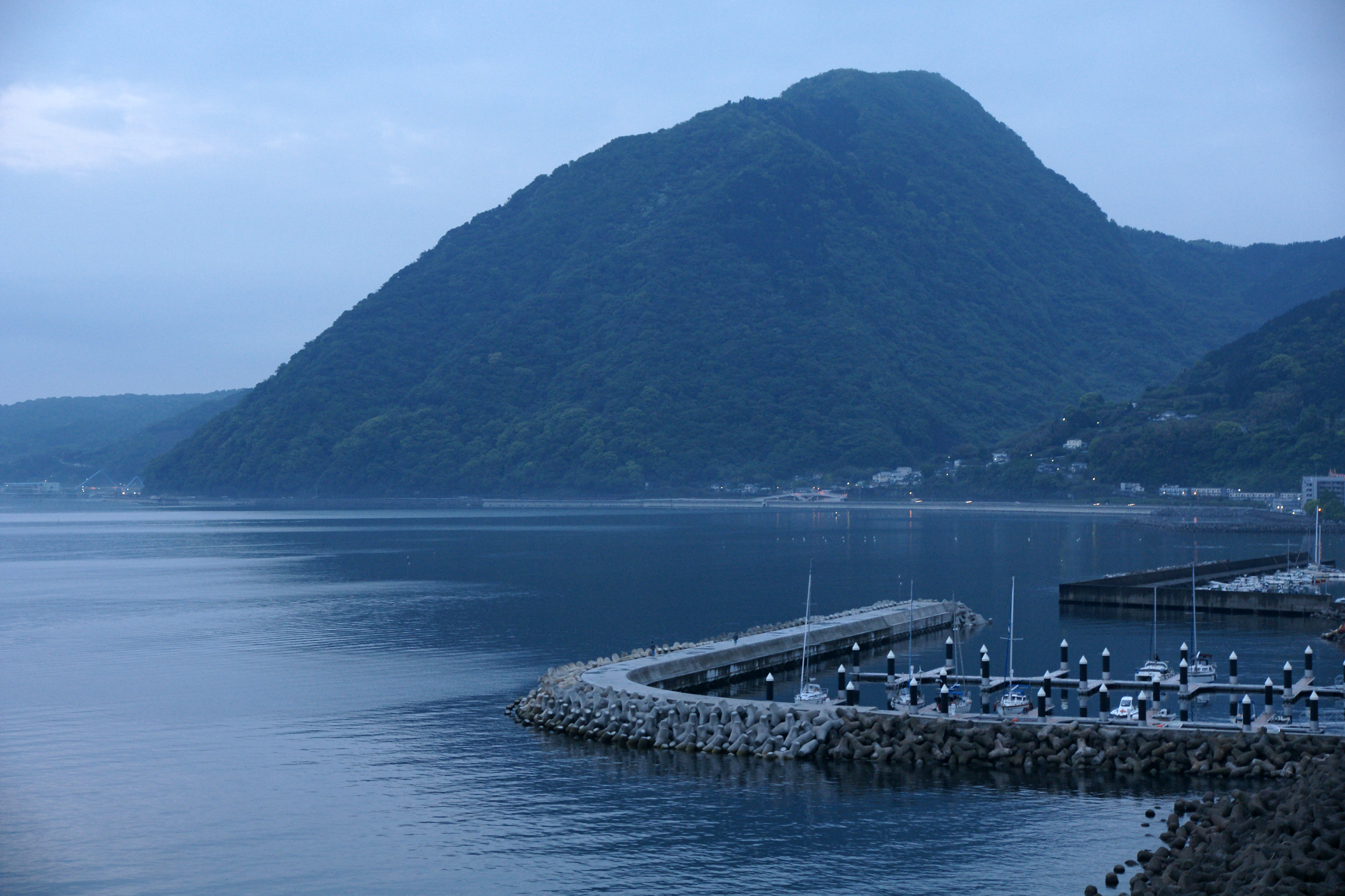 Beppu Bay from Beppu Onsen, Beppu, Oita prefecture, Japan